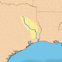 This is a map of the Neches River watershed. I, Kuru, created from data originating at the USGS.